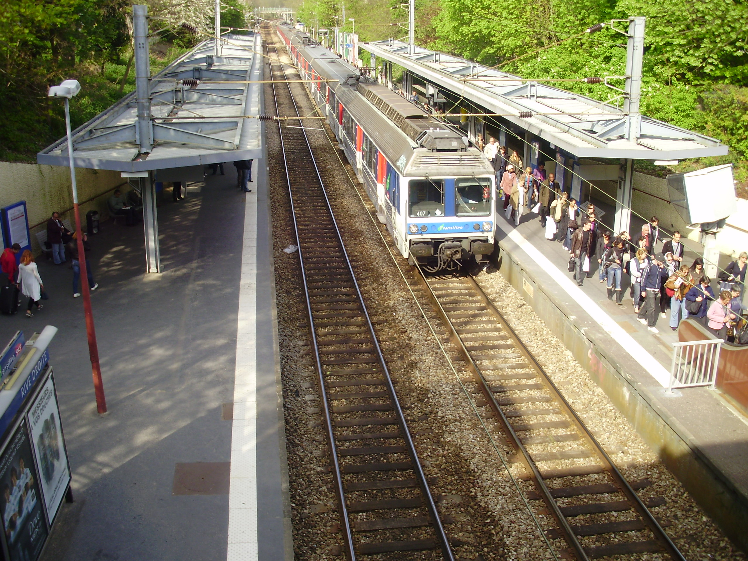 Arrival of a train (Class Z 6400 unit) at the Chaville - Rive Droite station, in Chaville, Hauts-de-Seine, France